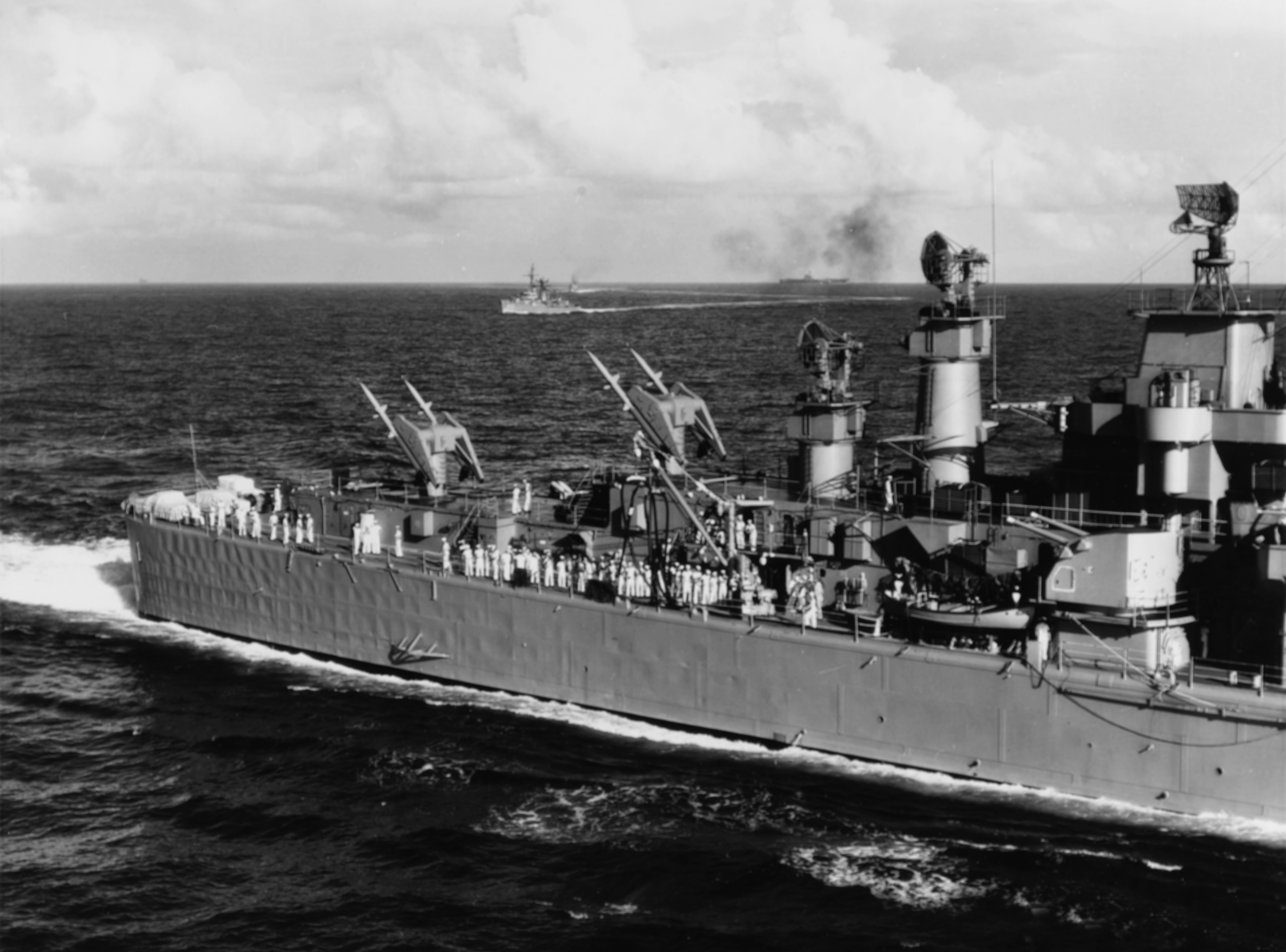 View of the after portion of the U.S. Navy guided missile cruiser USS Boston (CAG-1), as she prepares for underway refueling, on 15 July 1959. The photograph shows both of her launchers for SAM-N-7 Terrier guided missiles, with a pair of Mark 25 Mod 7 guidance radars just ahead of them. An antenna for a SPS-12 radar is atop the pedestal at the right side of the image, with Boston's after starboard 5"/38 twin gun mount below. Note the refueling boom rigged alongside the forward missile launcher, the destroyer USS Blandy (DD-943) and an aircraft carrier in the background.